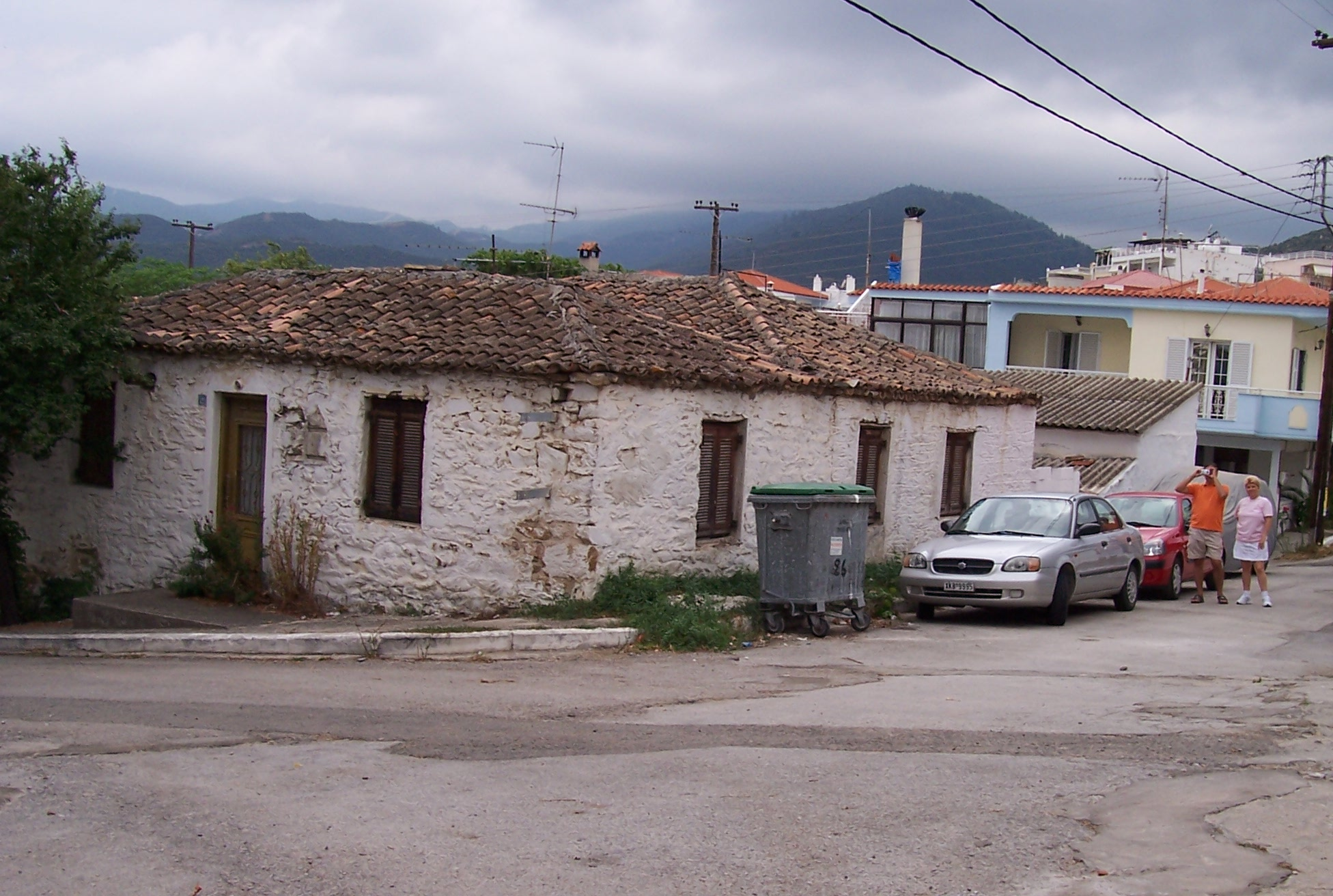 Sarti, Chalkidiki Prefecture, Greece.